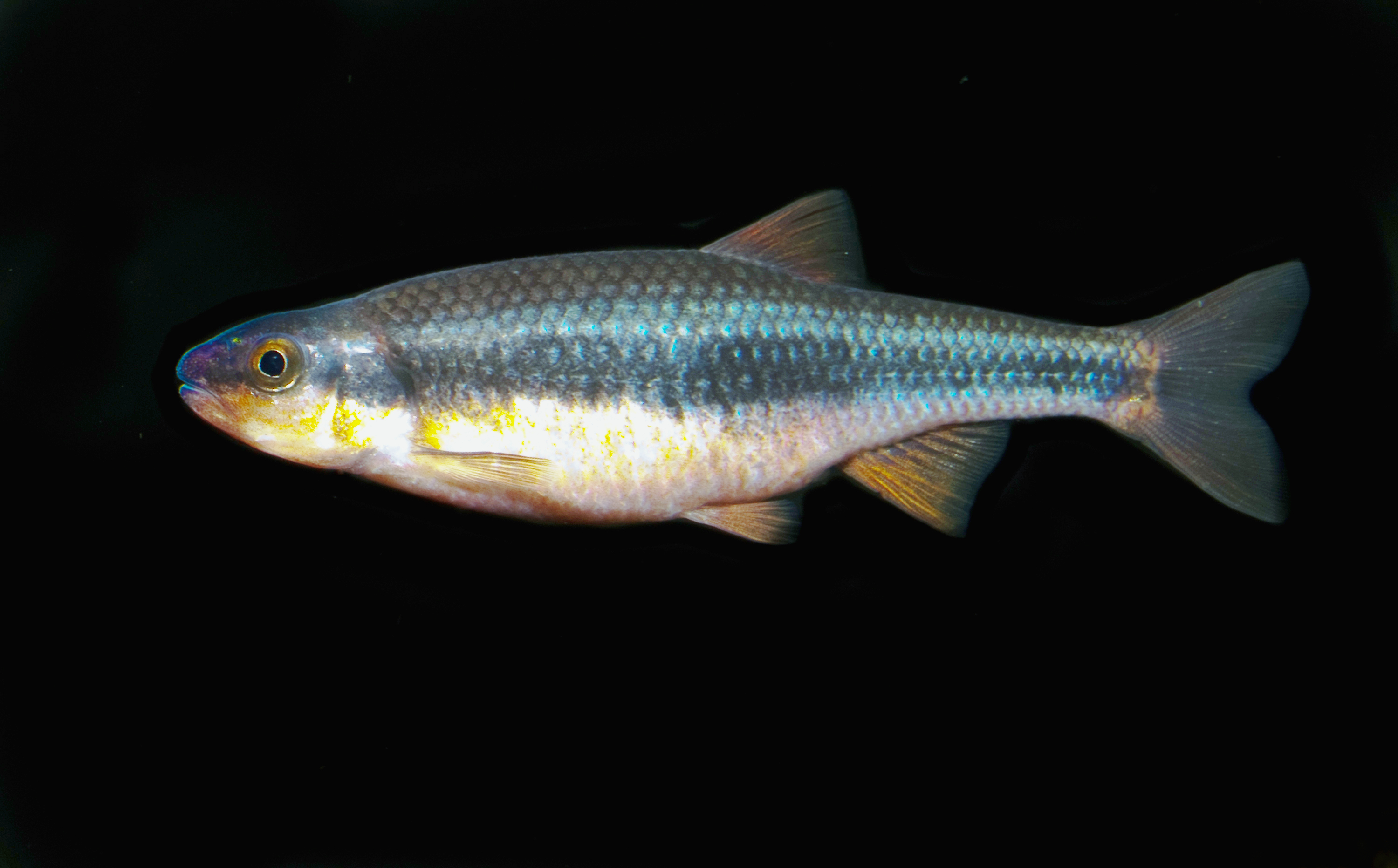 Notropis lutipinnis at Georgia Aquarium